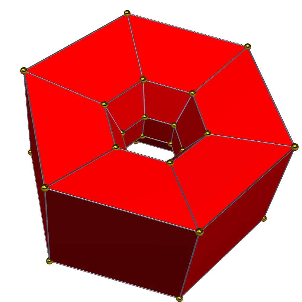 Duoprism, square faces for regular skew polyhedron {4,4,6}